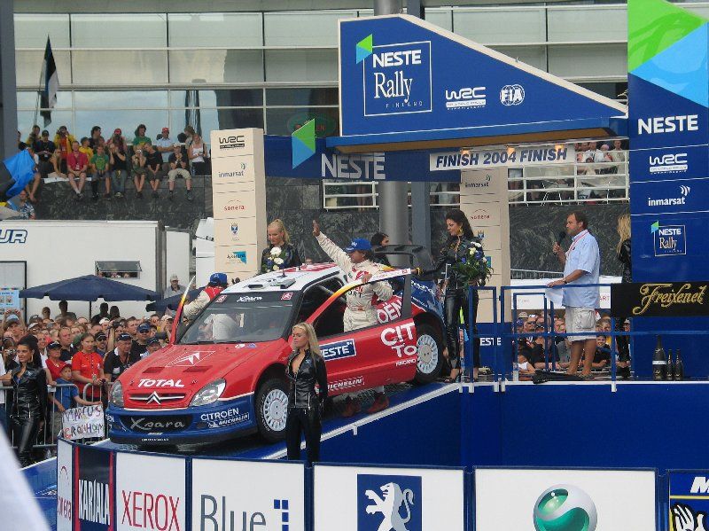 Carlos Sainz and his Citroën Xsara WRC (3rd place) on the podium of the 2004 Rally Finland.